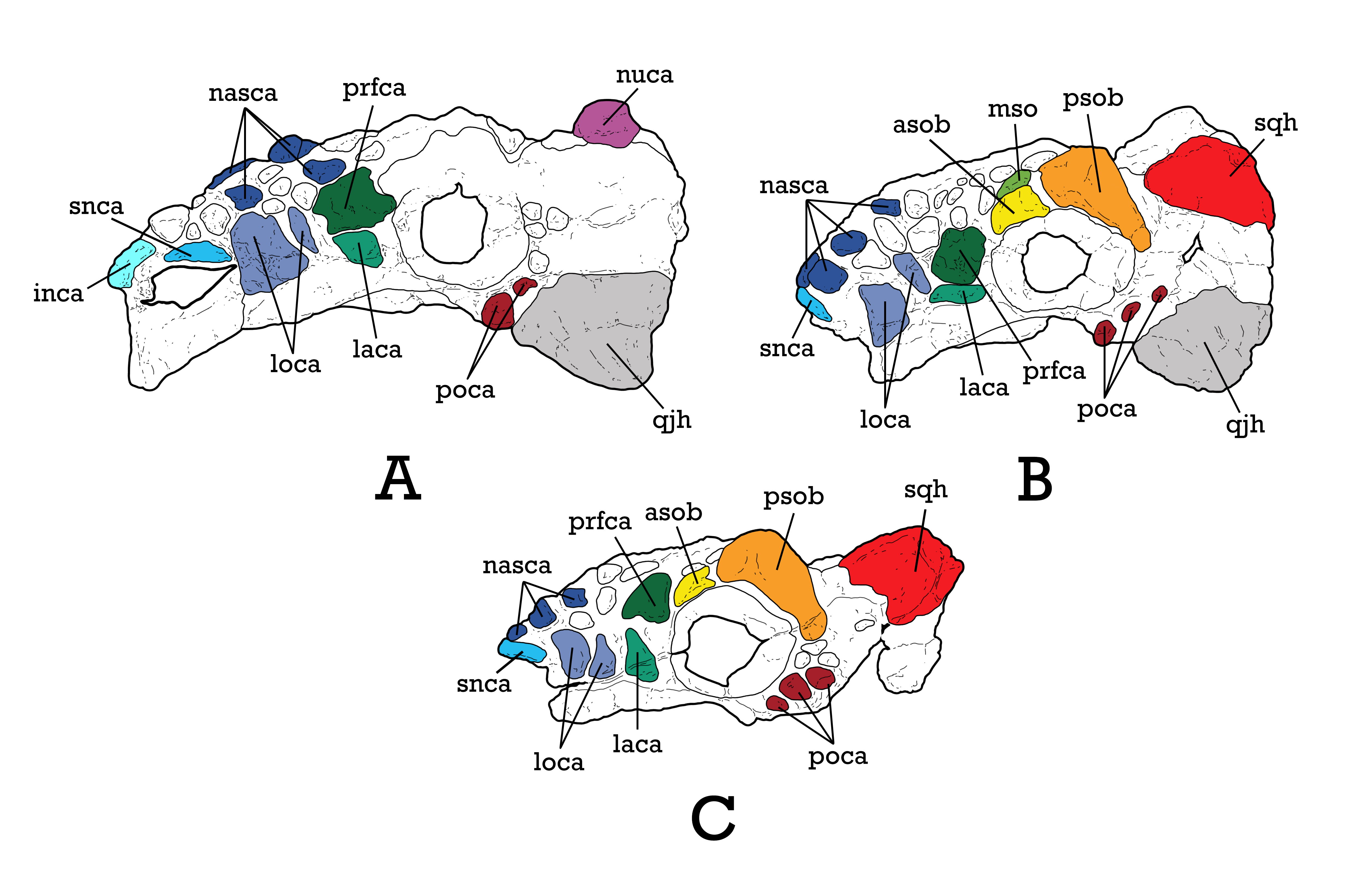 Diagram featuring the most complete skulls of Talarurus plicatospineus. Represented specimens: A) MPC-D 100/1354, B) MPC-D 100/1355 and C) MPC-D 100/1356. Mainly based on Park et al. 2019.[1] Abbreviations: asob: anterior supraorbital caputegulum - inca: internarial caputegulum - laca: lacrimal caputegulum - loca: loreal caputegulum - mso: middle supraorbital caputegulae - nasca: nasal caputegulum - nuca: nuchal caputegulum - poca: postocular caputegulum - prfca: prefrontal caputegulum - psob: posterior supraorbital caputegulum - qjh: quadratojugal horn - snca: supranarial caputegulum - sqh: squamosal horn Specimens not to scale. Caputegulum= Facial osteoderms. __________________________________________________________________________________________________________________